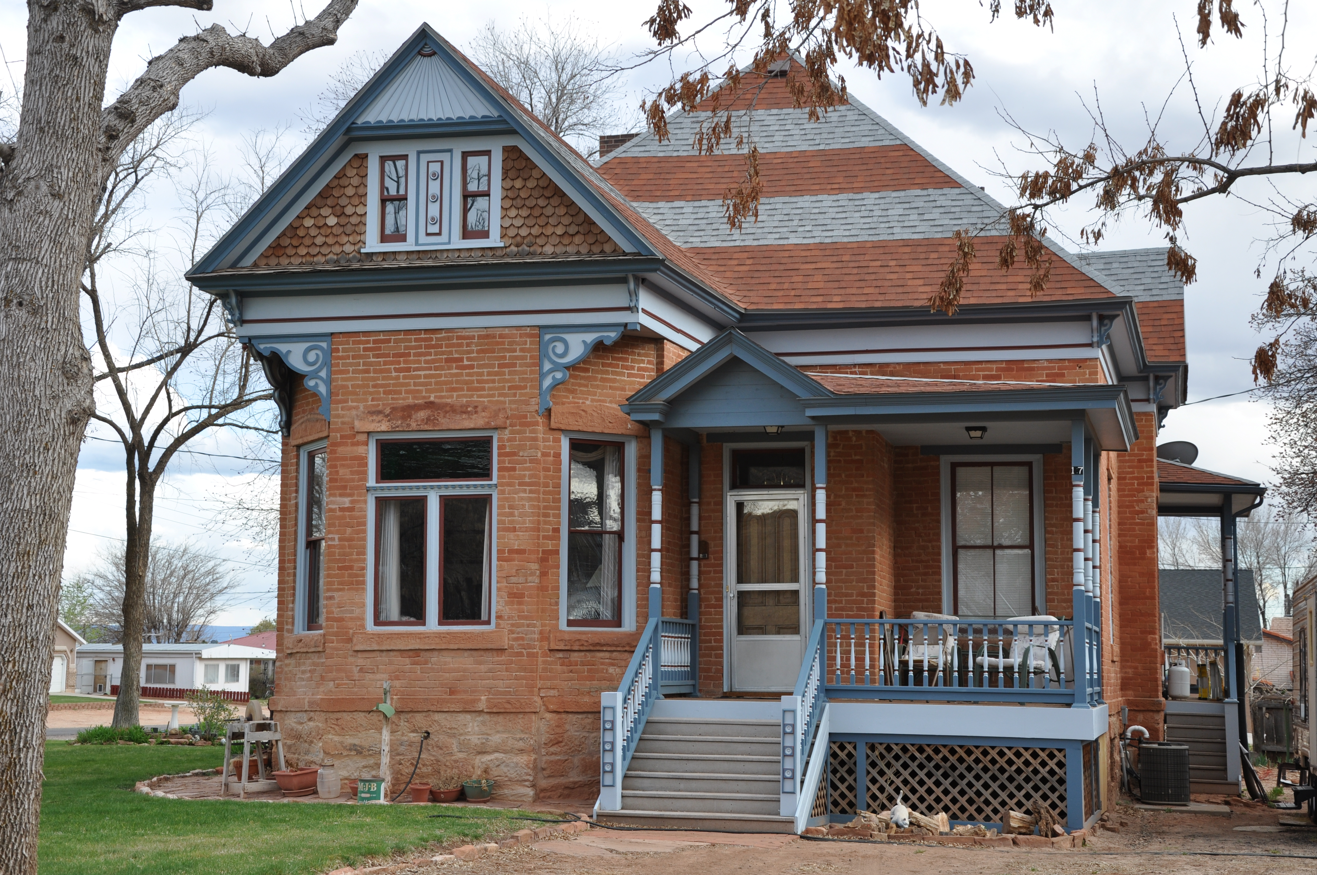 The Rider-Pugh House in Kanab in the U.S. state of Utah.